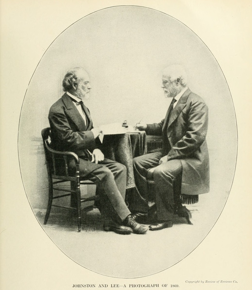 Joseph E. Johnston & Robert E. Lee (1869)